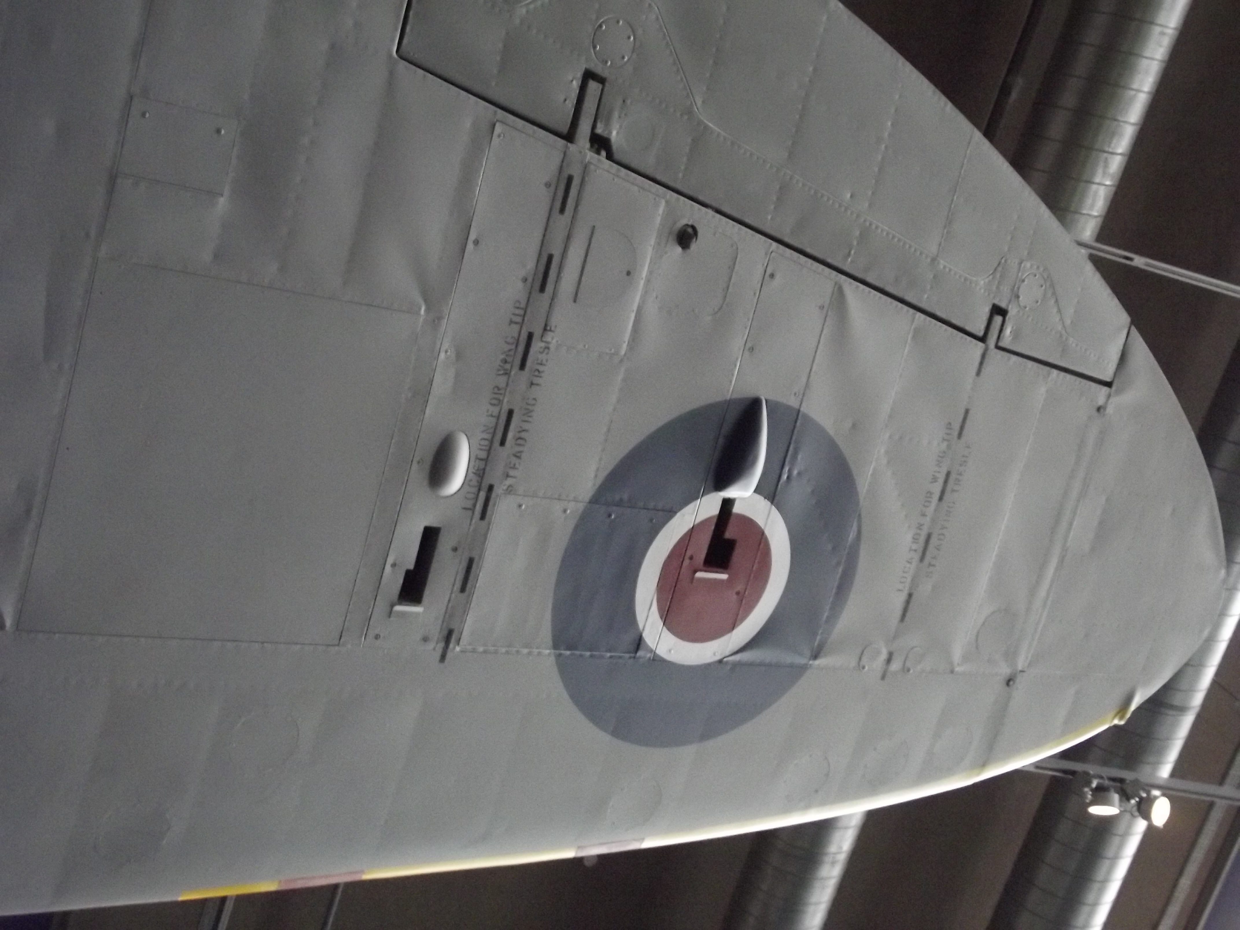 A collection of old vehicles on Level 0 of Thinktank Birmingham Science Museum. The area called "Move It" These were most likely in display at one time or another in the old Science Museum on Newhall Street (until 1997). When not on display, some of them had been stored at the Museum Collections Centre on Dollman Street in Nechells. This plane from World War 2 is the Supermarine Spitfire Mark IX. It was one of 11,000 built by Vickers Armstrong in Castle Bromwich, Birmingham. The hunt is currently one for buried Spitfire's in Burma. So far they haven't found the parts. There may also be some buried near the factory in Castle Bromwich. Details of the plane from underneath. Wing